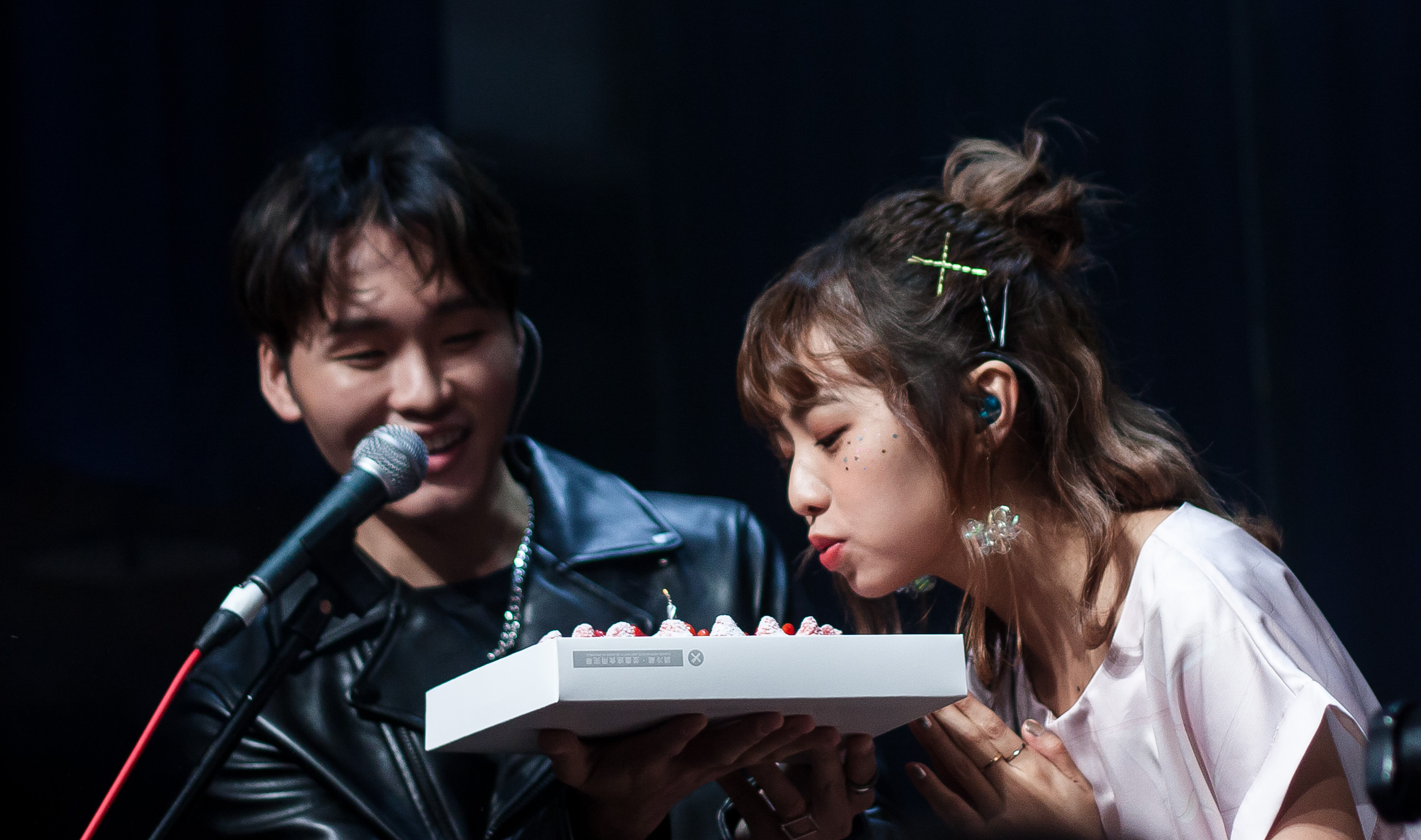 DEWI0303